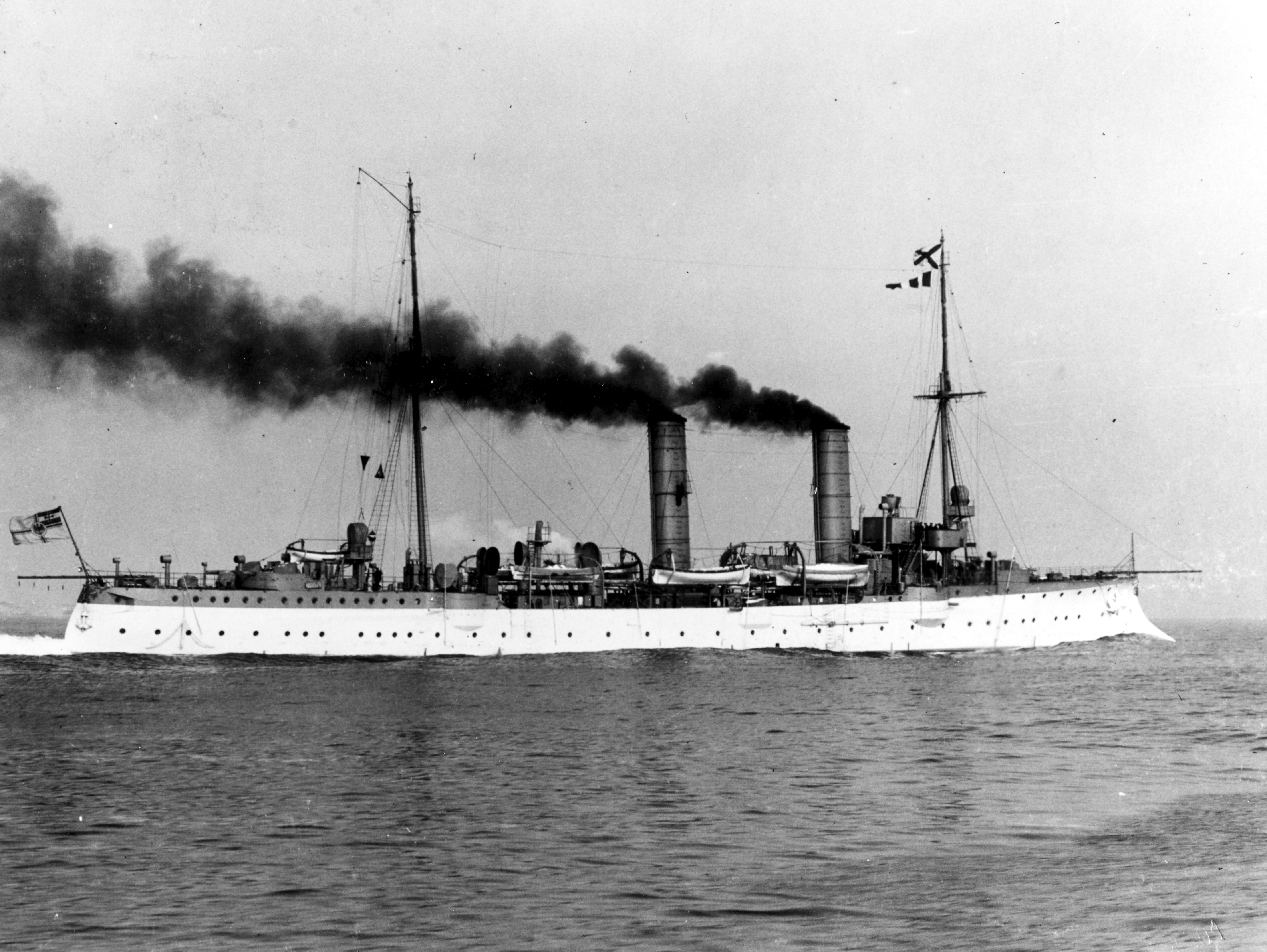 Title: NYMPHE (German cruiser, 1899-1931) Caption: Photo by Arthur Renard, Kiel, 1901.